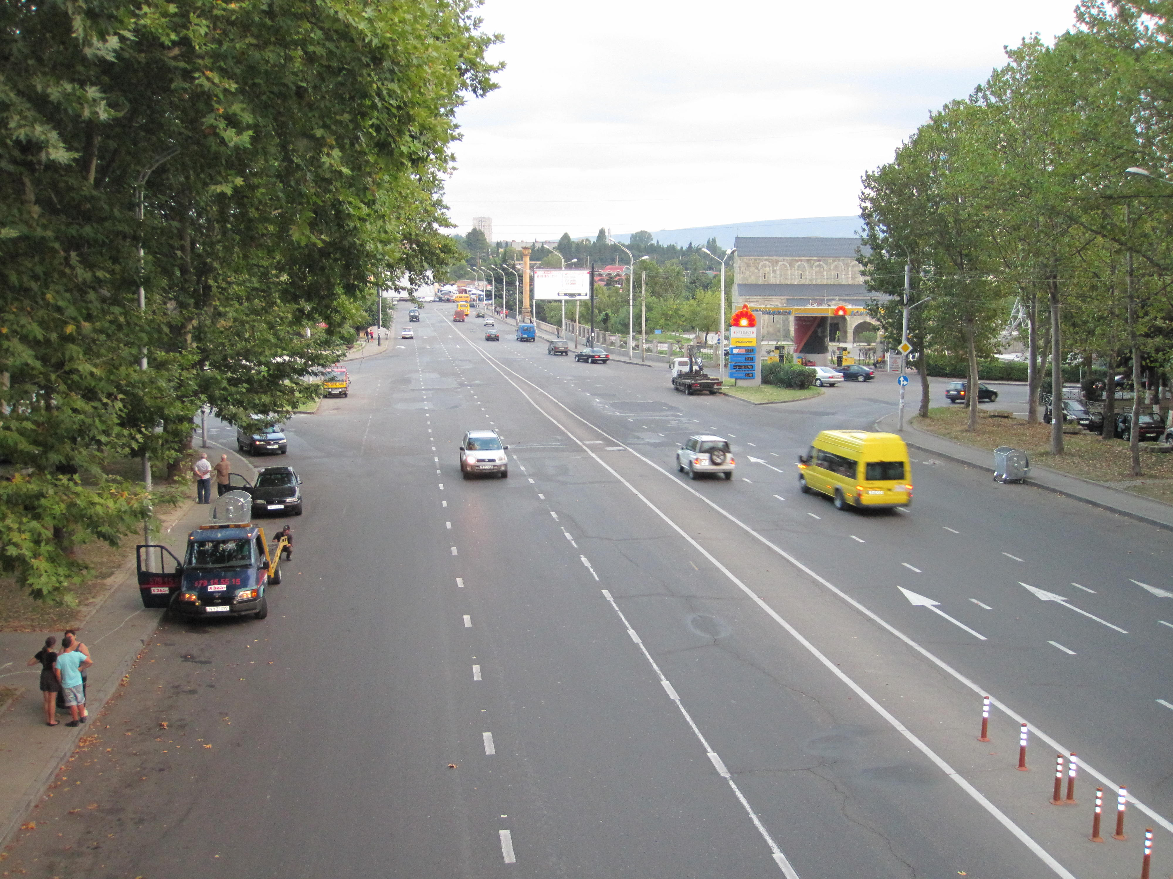 Robakidze Street in Digomi neighborhood, Tbilisi